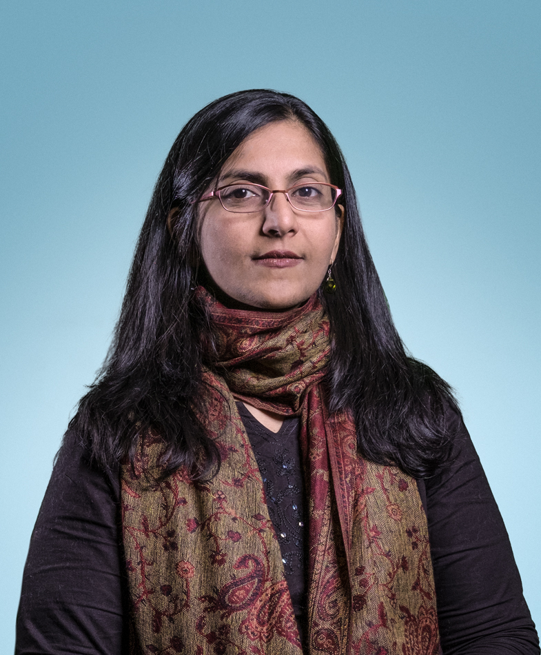 Kshama Sawant Portrait